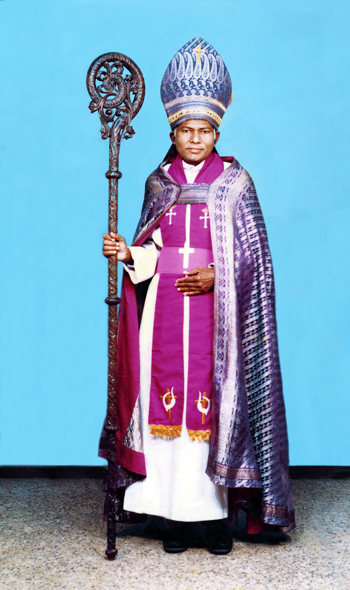 The 9. Bishop of Tranquebar Jubilee Gnanabaranam Johnson dressed up to the nines in Bishop's vestments with Bishop's mitre and Bishop's crozier of the Tamil Evangelical Lutheran Church of Tamil Nadu. He wore the Bishop's ring only during his installation.